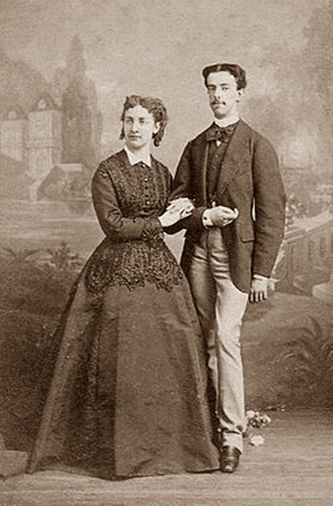 Amadeo of Savoy with his frist wife Maria Vittoria del Pozo